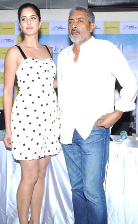 Katrina Kaif AT Book launch of 'Raajneeti - The Film & Beyond'